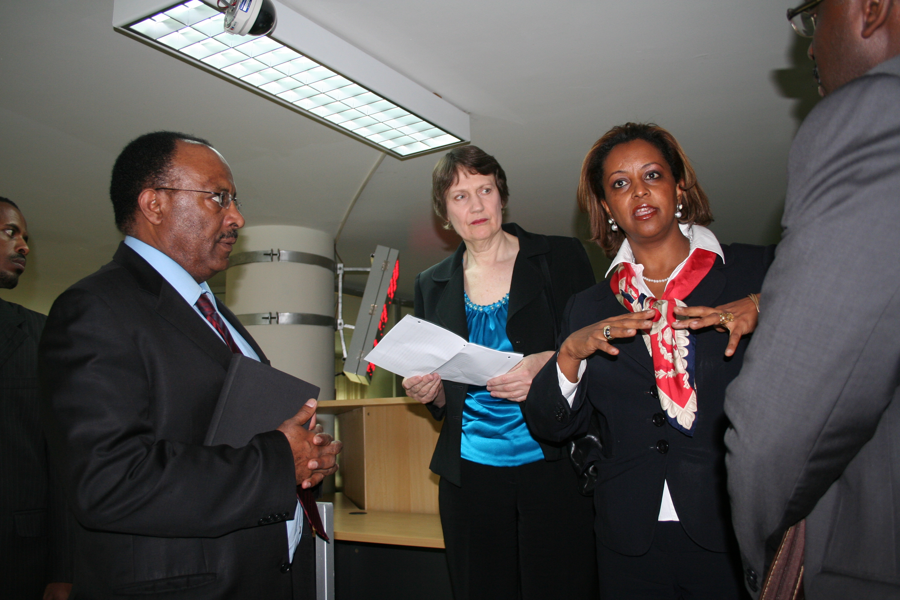 Ethiopia Commodity Exchange CEO Aleni Gabre-Madhin talks about the exchange with Helen Clark